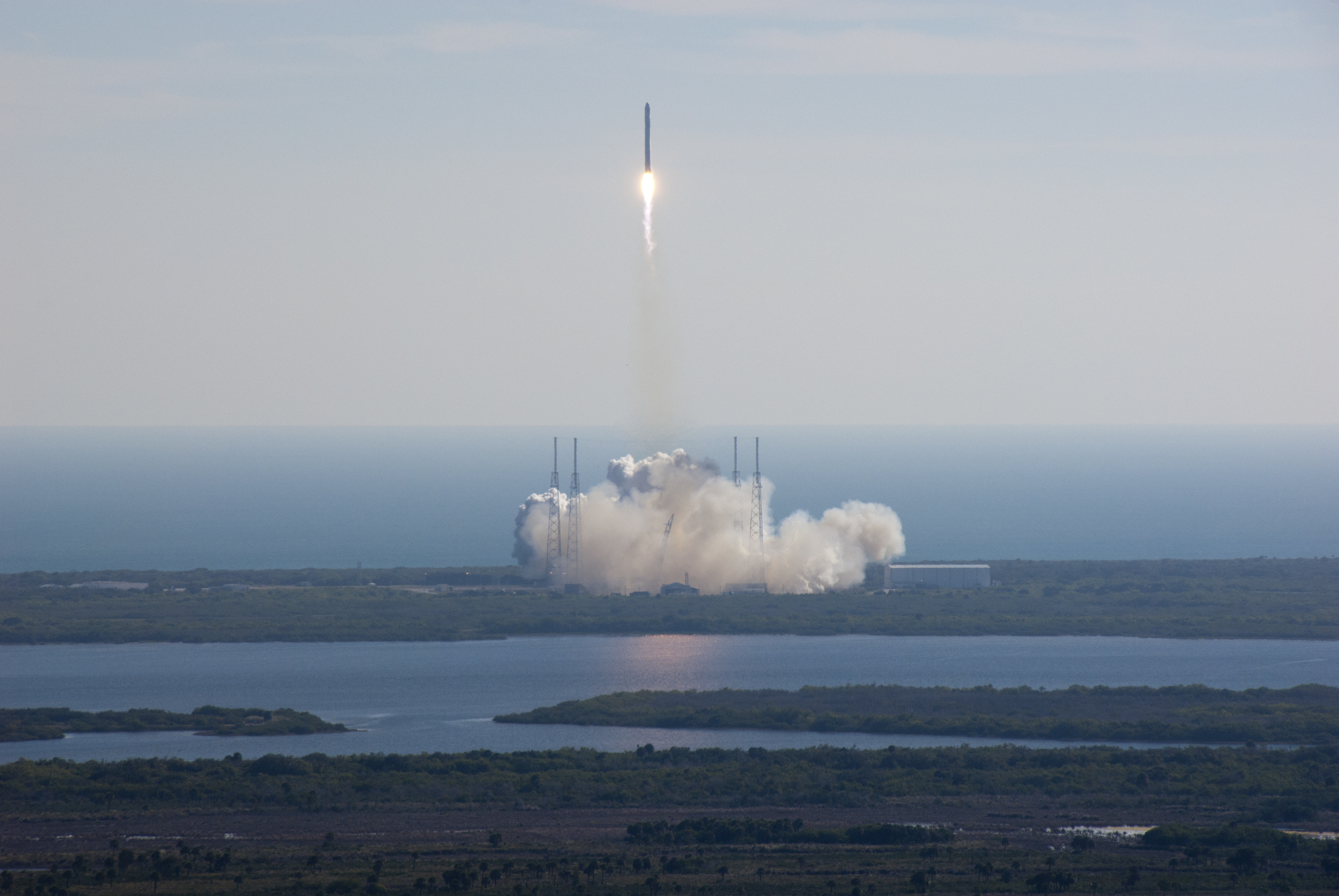 CAPE CANAVERAL, Fla. -- SpaceX’s Falcon 9 rocket and Dragon spacecraft lift off from Launch Complex 40 at Cape Canaveral Air Force Station at 10:43 a.m. EST. SpaceX was awarded procurement for three demonstration flights under the Commercial Orbital Transportation Services, or COTS, program managed by NASA's Johnson Space Center in Houston. A subsequent contract for Commercial Resupply Services, or CRS, was awarded in late 2008 to resupply the International Space Station. The SpaceX CRS contract provides for 12 missions to resupply the station from 2011 through 2015.